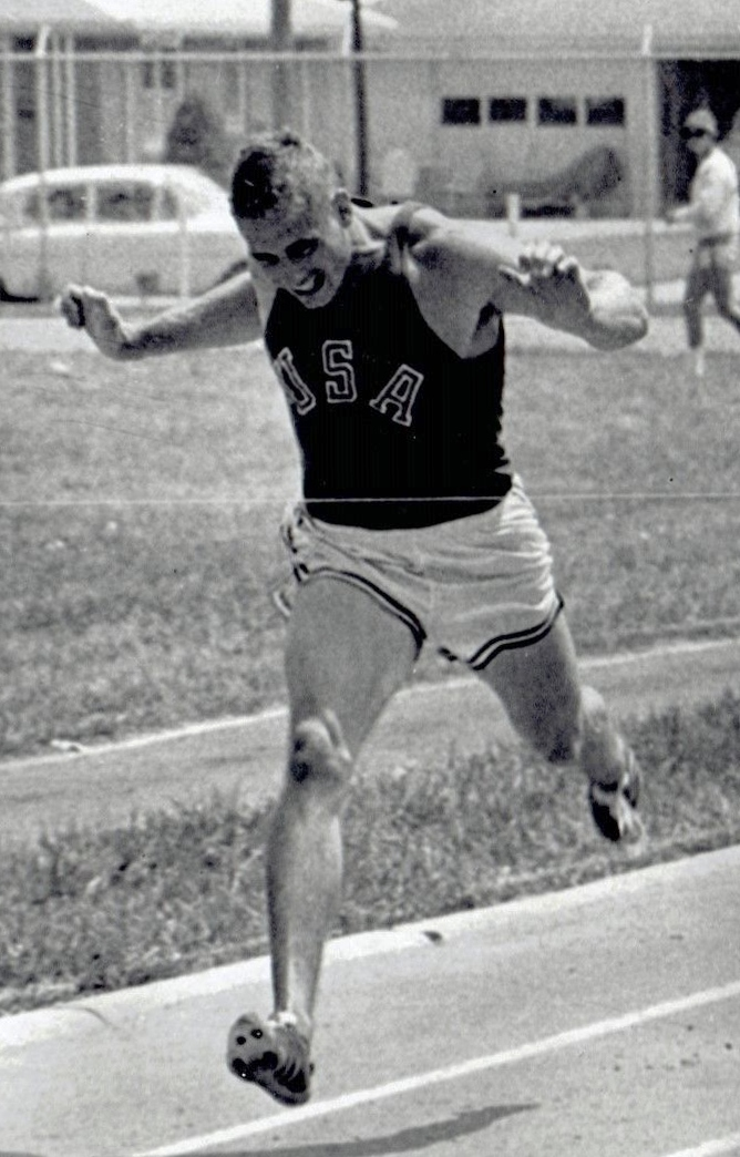 1966 Wire Photo Bill Toomey Russ Hodge 100 meter sprint AAU National Decathlon